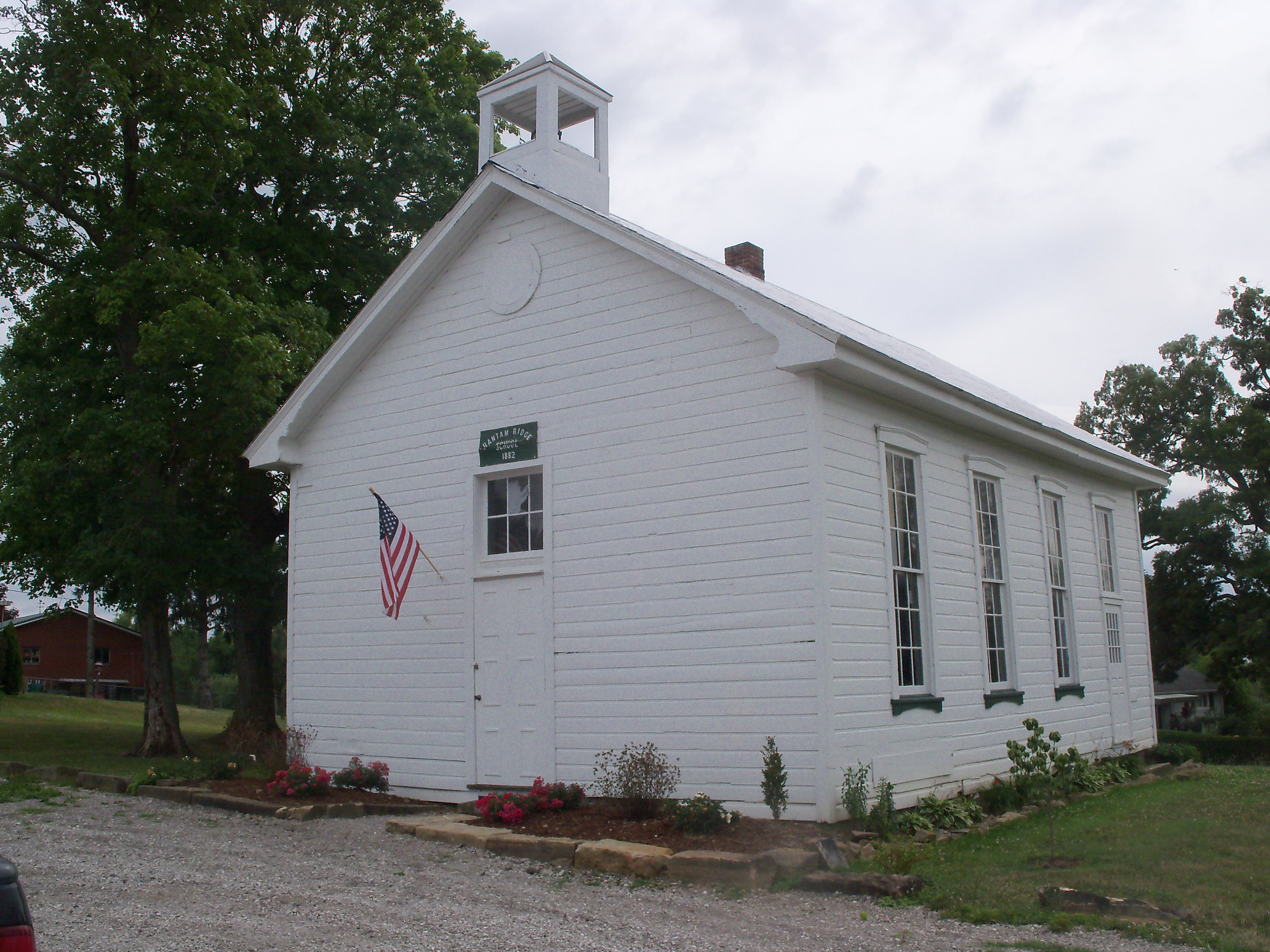 Bantam Ridge School, is a site on the National Register of Historic Places in Jefferson County, Ohio.